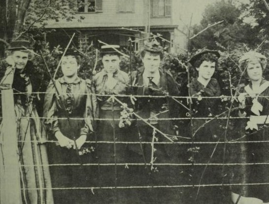 Abbot Academy students, behind a barrier separating them from Phillips Academy, circa 1874. In Andover, Massachusetts. Abbot Academy merged with Phillips Academy in 1973.